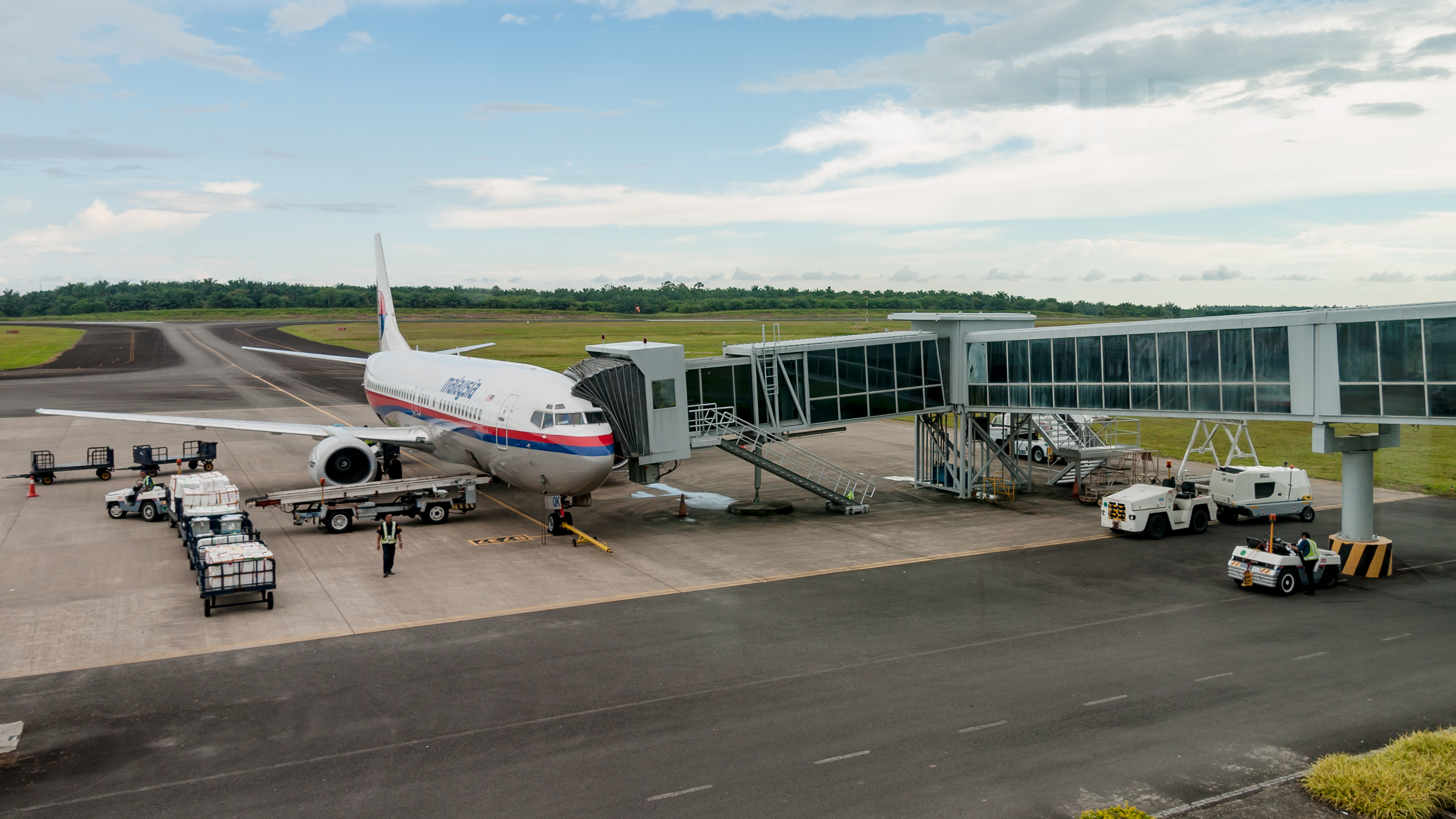 Tawau, Sabah, Malaysia: Airfield of Tawau Airport, Sabah, Malaysia.